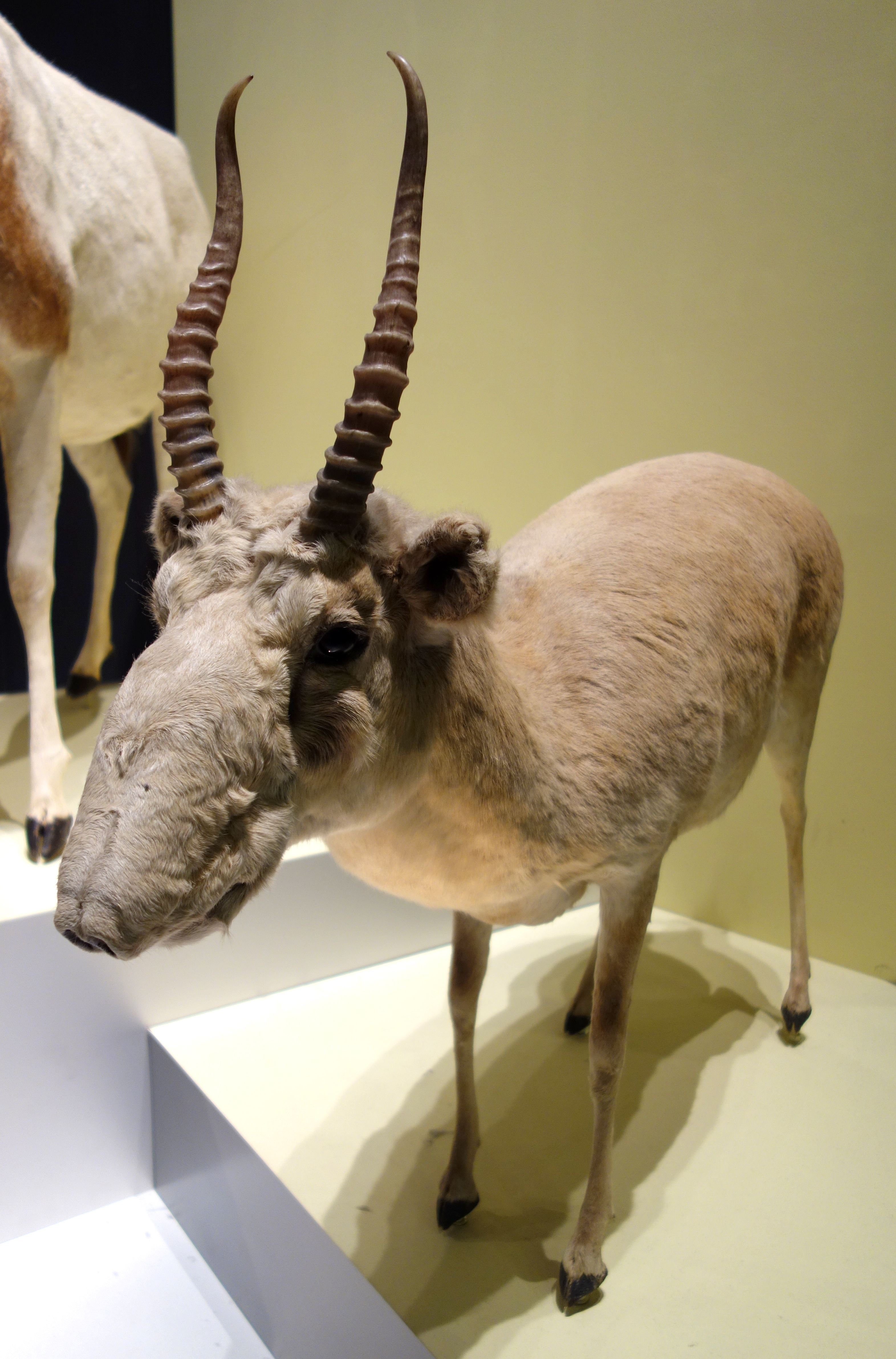 Exhibit in the National Museum of Nature and Science, Tokyo, Japan.